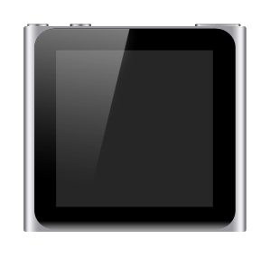 6th generation iPod nano